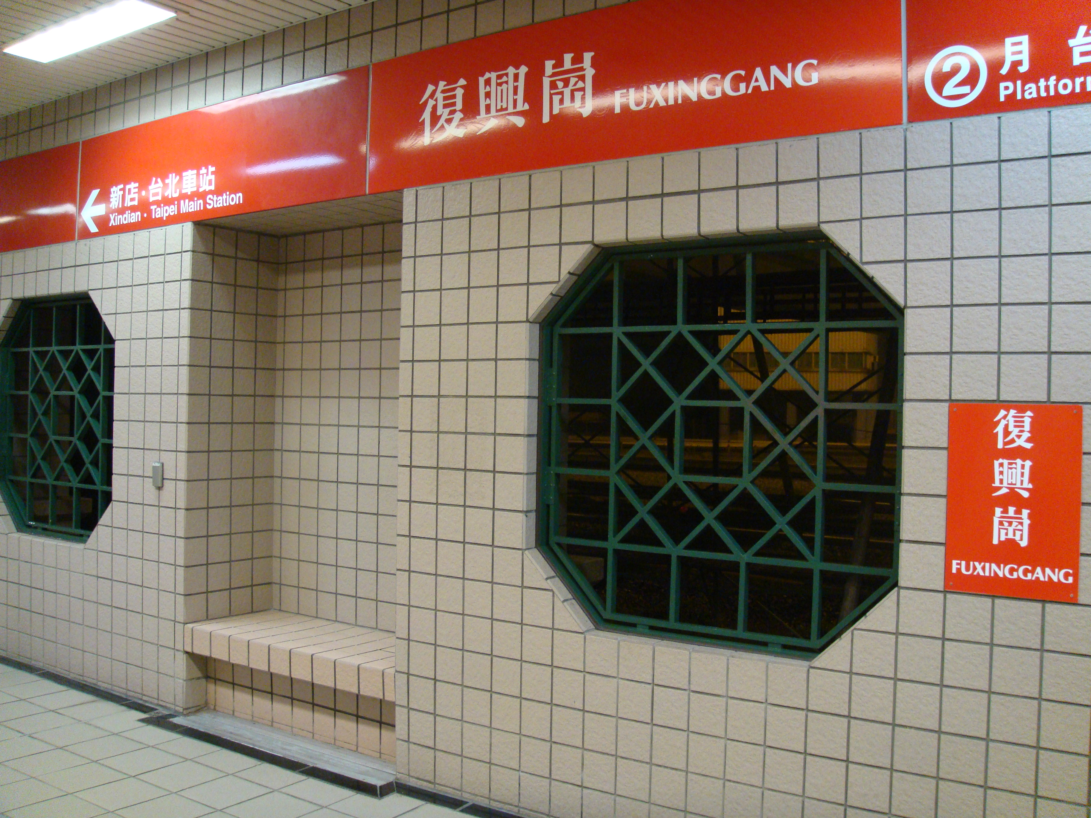 Platform 2, Fuxinggang Station, Danshui Line, Taipei Metro.中文（台灣）: 台北捷運淡水線復興崗站第二月台。